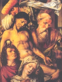 Deposition of the Cross